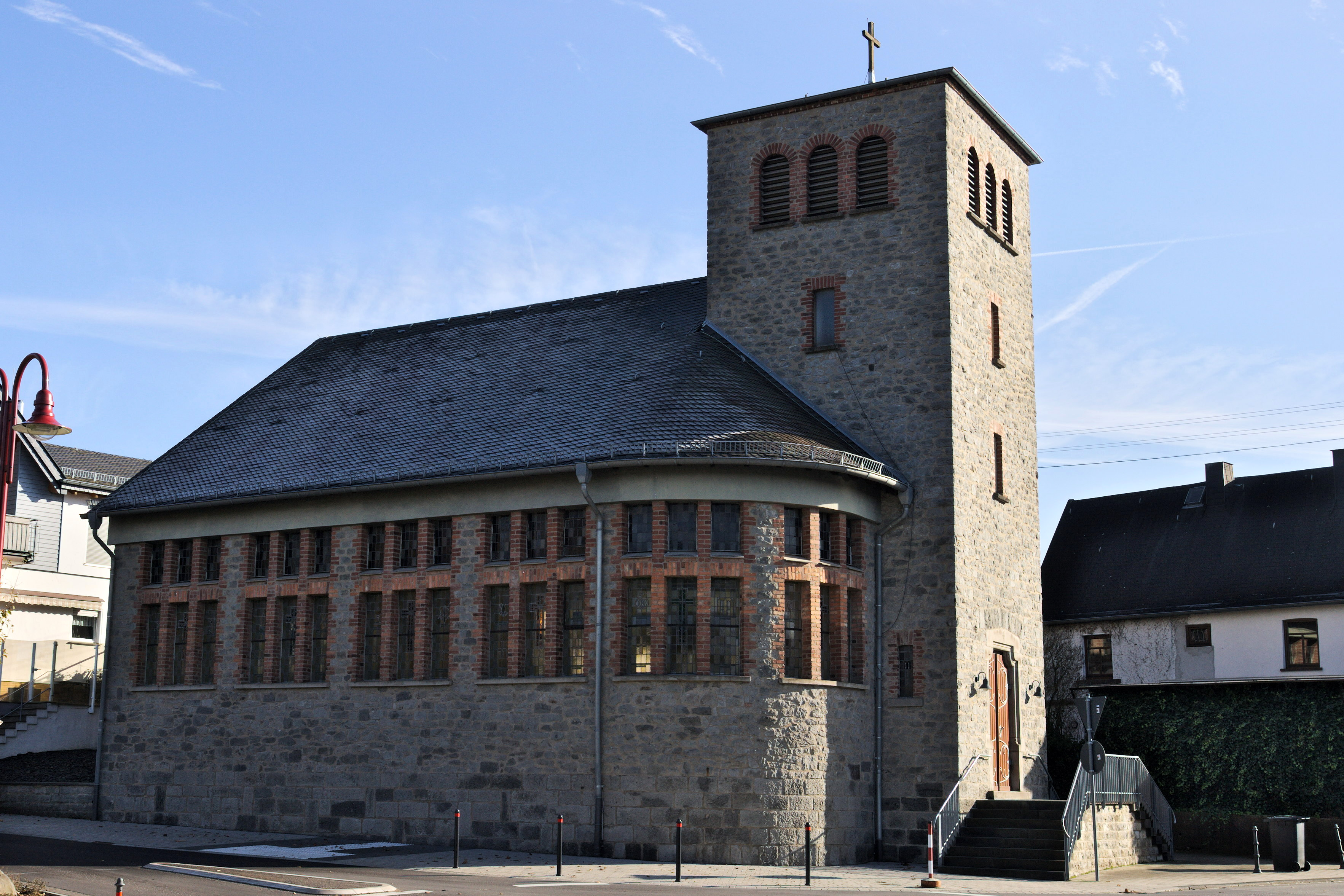 Church building. Location: Kirchstraße/Hauptstraße junction, Bannberscheid, Westerwaldkreis, Germany